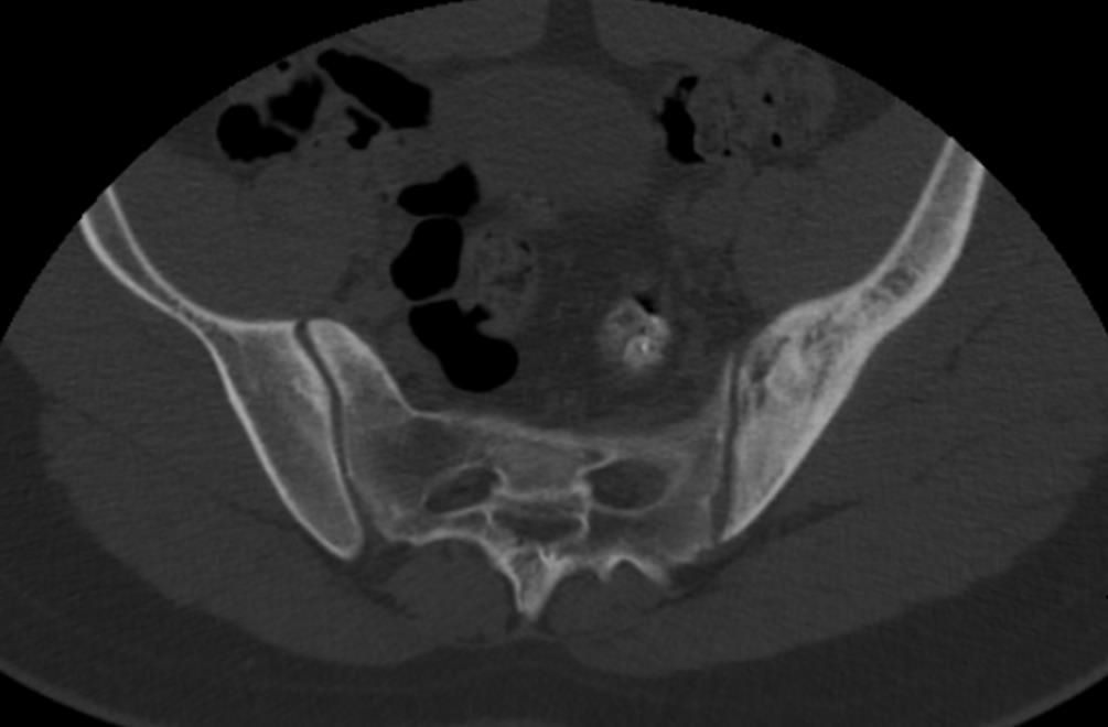 CT scan following bone scan in this patient shows diffuse cortical and trabecular thickening of the hemipelvis supporting the diagnosis of Paget’s disease. However, MRI revealed primary B-cell lymphoma.